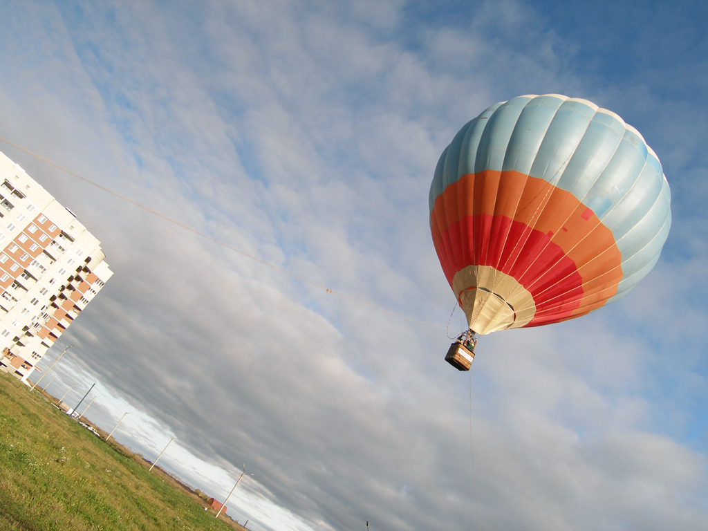 Flight of the balloon near Yuzhniy district of Kamensk Uralsky (September 2009)